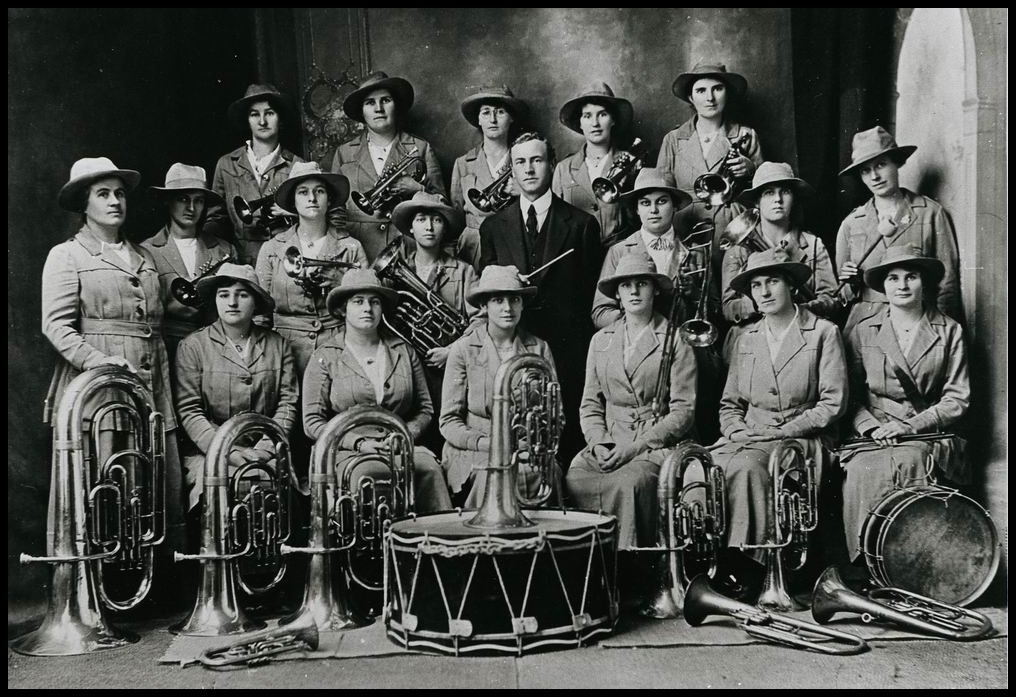 SLSA B 16615 Clare Girls Band Visit to view more photos of South Australia. Flickr data (on upload date): Tags: Clare, South Australia, Girls Band, Musical Instruments, Women, State Library of South Australia License: Some rights reserved